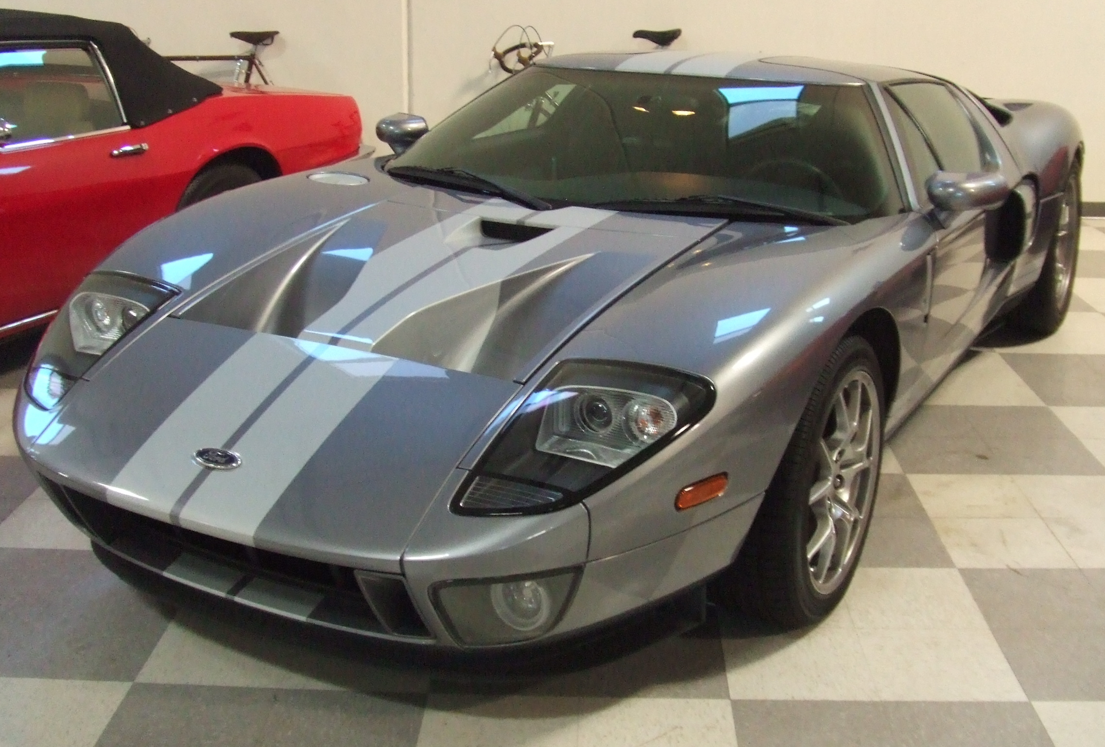 2006 Ford GT1 at the Riverside International Automotive Museum in Riverside, California.